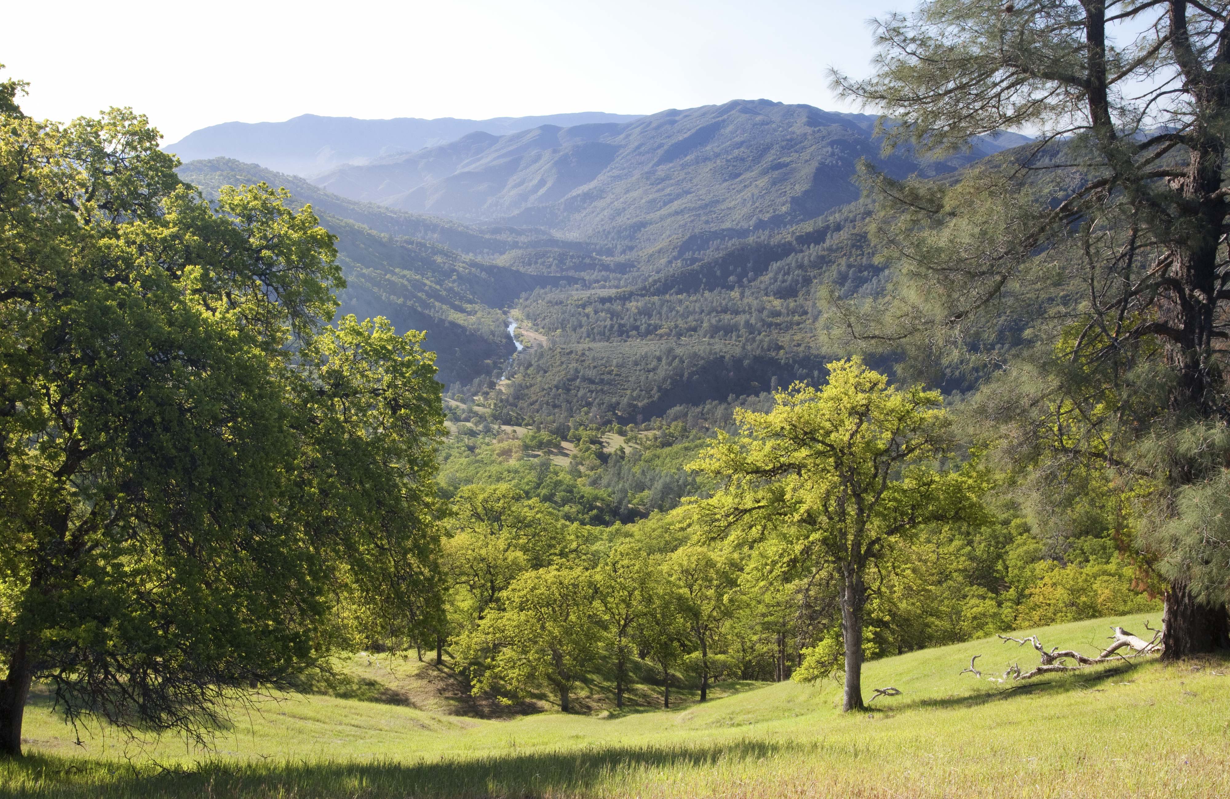 This secluded, hilly expanse of oak woodlands, grasslands, and chaparral is a combination of over 70,000 acres of BLM managed lands and 4,700 acres of State and County lands. The Natural Area is traversed by Cache Creek, with its year-round water flow. Elevation ranges from 3200 feet atop Brushy Sky High, down to 600 feet in the eastern end of Cache Creek along State Route 16. Showcasing the area is about 35 miles of the main fork of Cache Creek and 2.5 miles of the north fork. Also present are several tributary creeks that contain permanent water. The Cache Creek Natural Area is a primitive area, closed to motorized vehicles. There are no developed campgrounds or facilities. Non-hunting (target) shooting is not allowed. Instead, the area is managed to improve habitat for wildlife and rare plants, to protect cultural resource values, and to offer primitive recreation opportunities, including wildlife viewing, river running, hiking, equestrian use, hunting and fishing. On October 17, 2006, President George W. Bush signed the Northern California Coastal Wild Heritage Act, designating approximately 27,245 acres within the Cache Creek Natural Area as the Cache Creek Wilderness Area. Learn more: Photo: Bob Wick, BLM